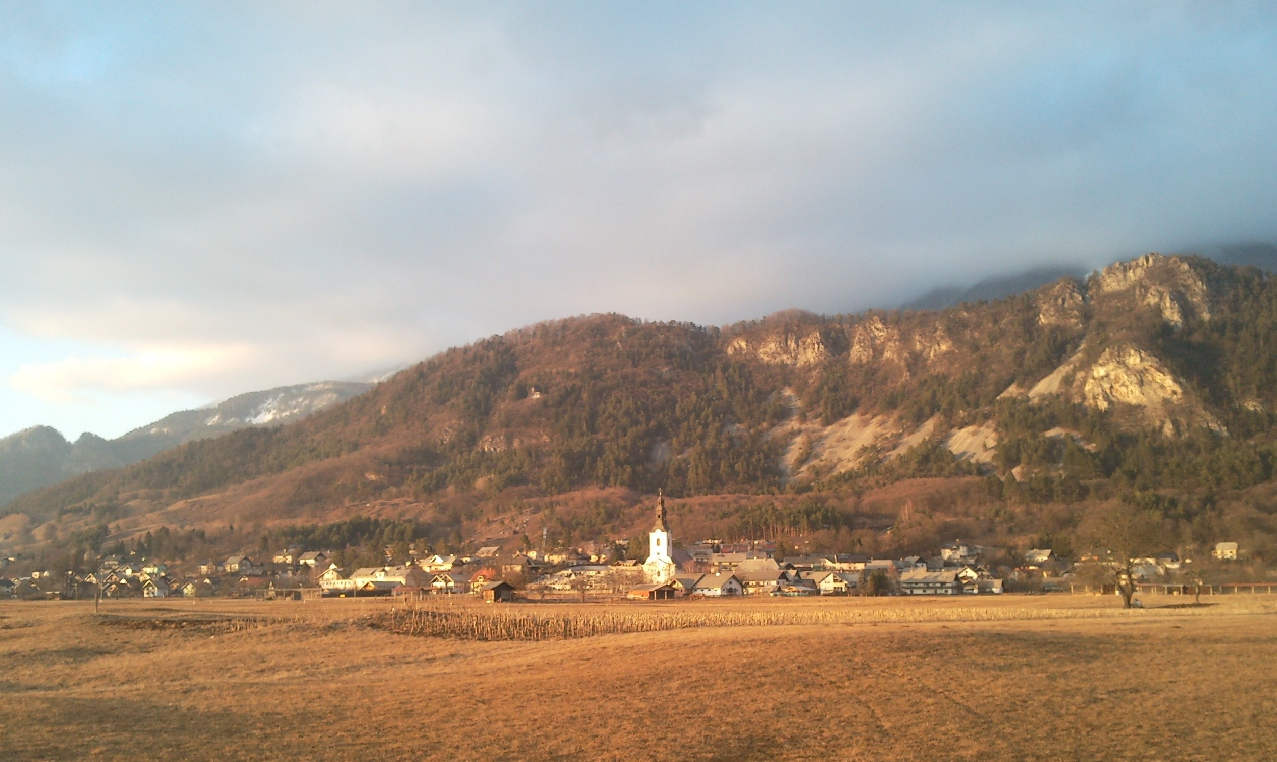 Breznica, administration centre of Žirovnica municipality, view towards Karavanke in late afternoon light (only slopes of the Reber Ridge are visible)